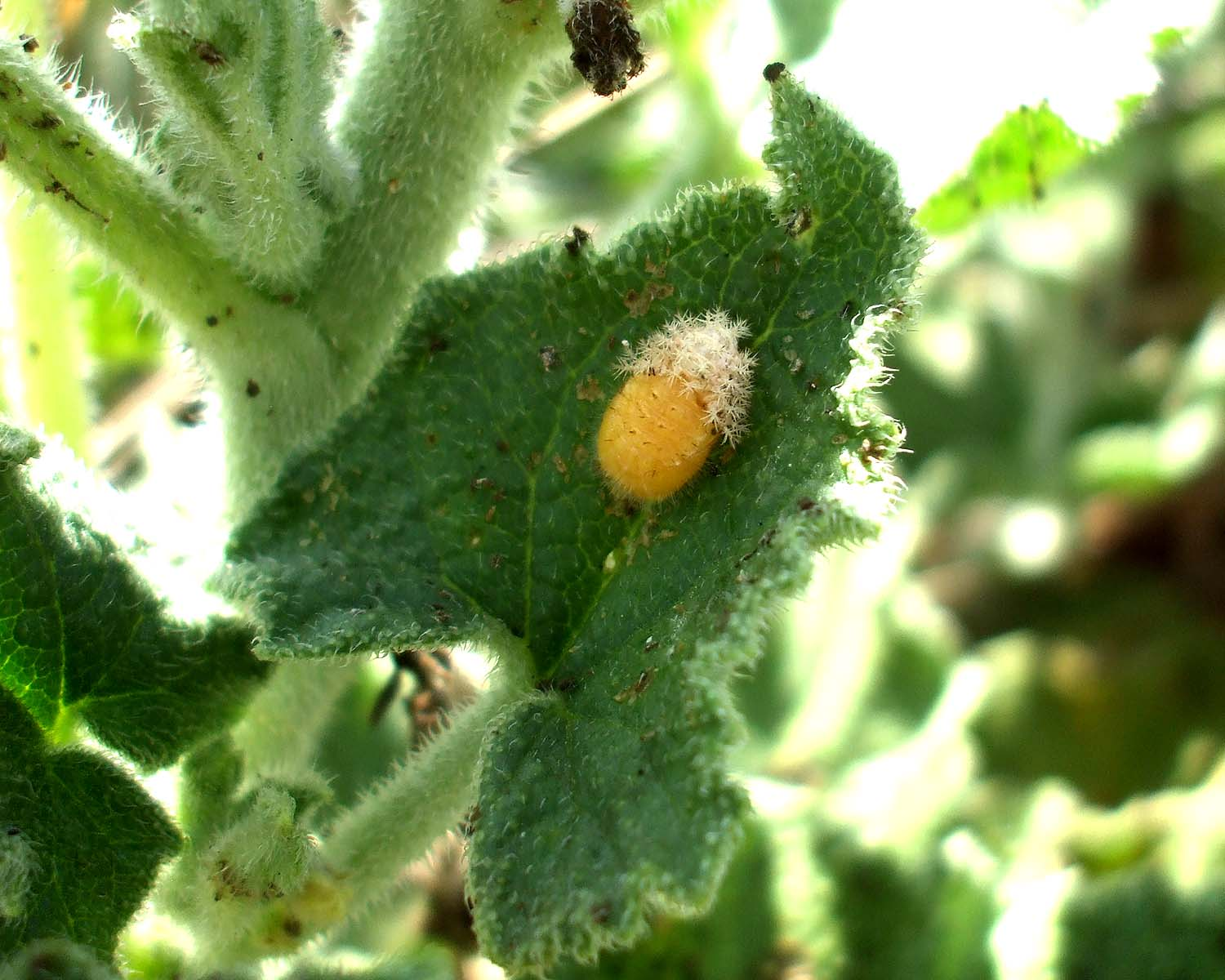 Pupa of Henosepilachna argus Malti: Żewġ eżemplari tal-larva tan-nannakola Henosepilachna argus